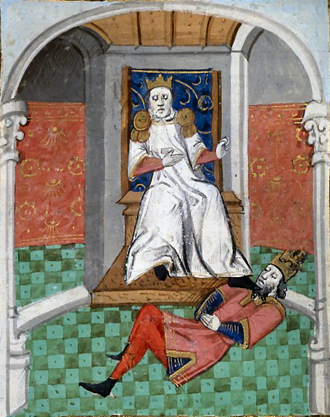 Alp Arslan humiliant Romain IV